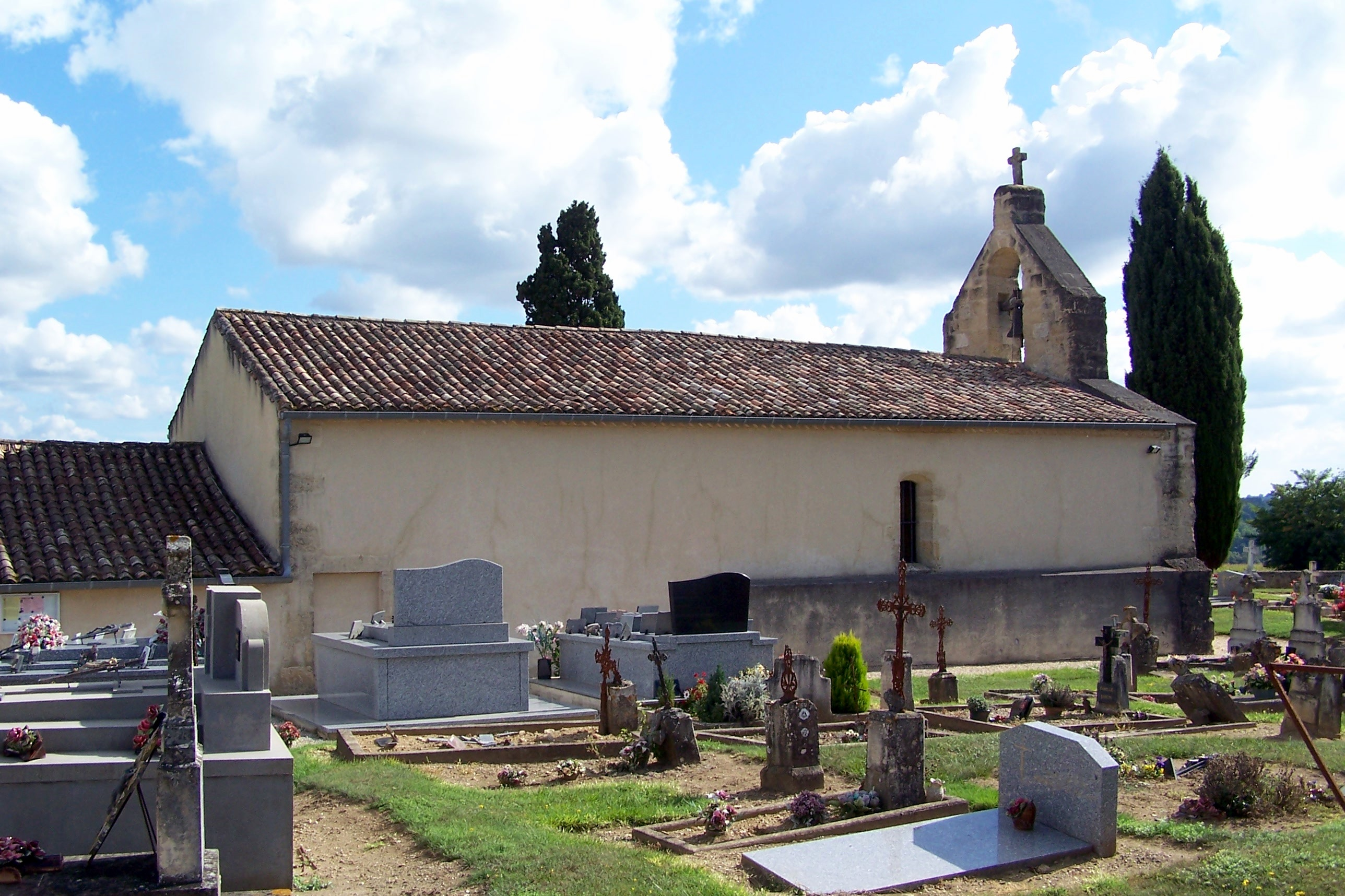 Church Saint-Martin of Neuffons (Gironde, France)